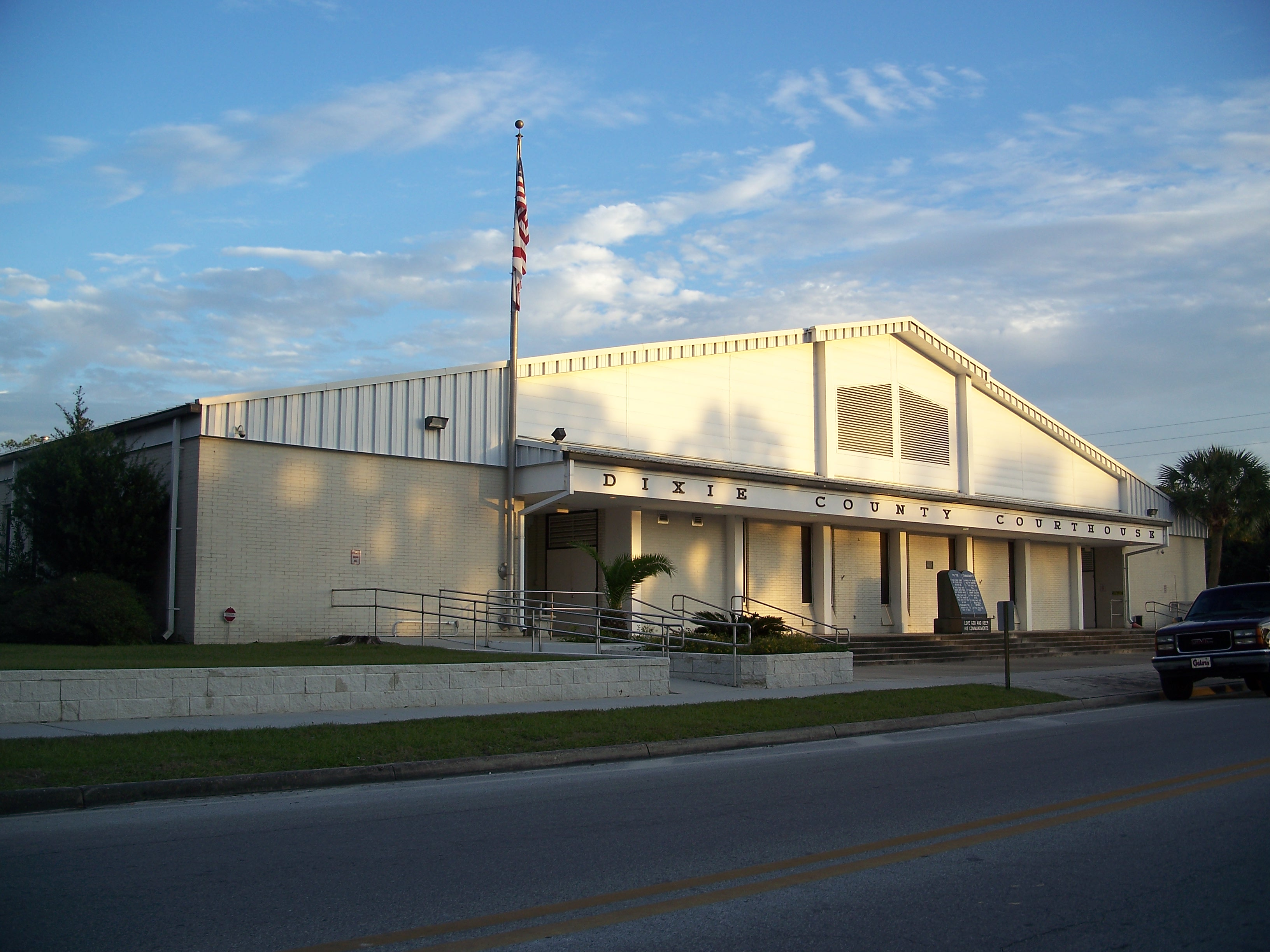 Cross City, Florida: Dixie County Courthouse.